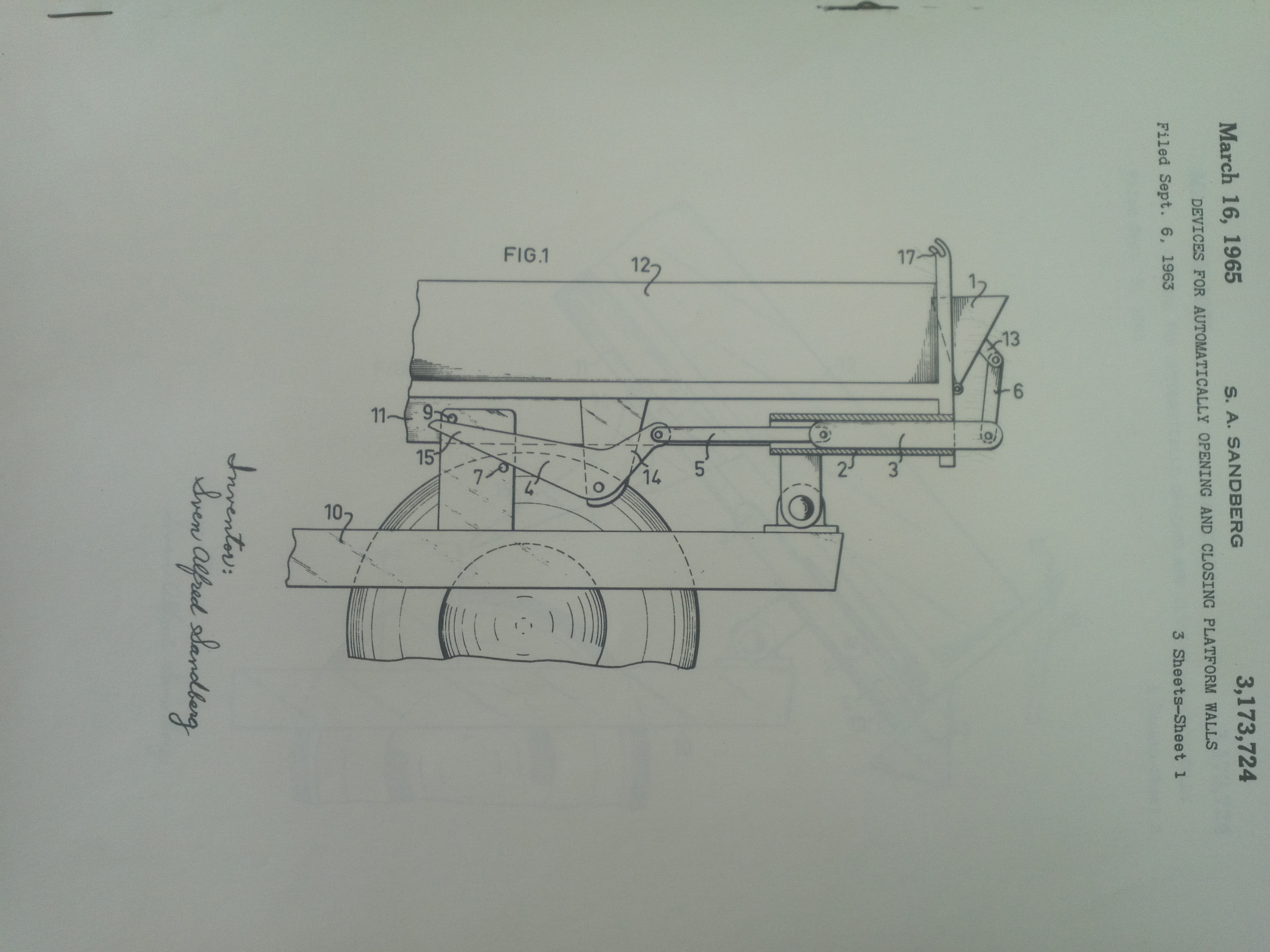 Device for automatically opening and closing platform walls